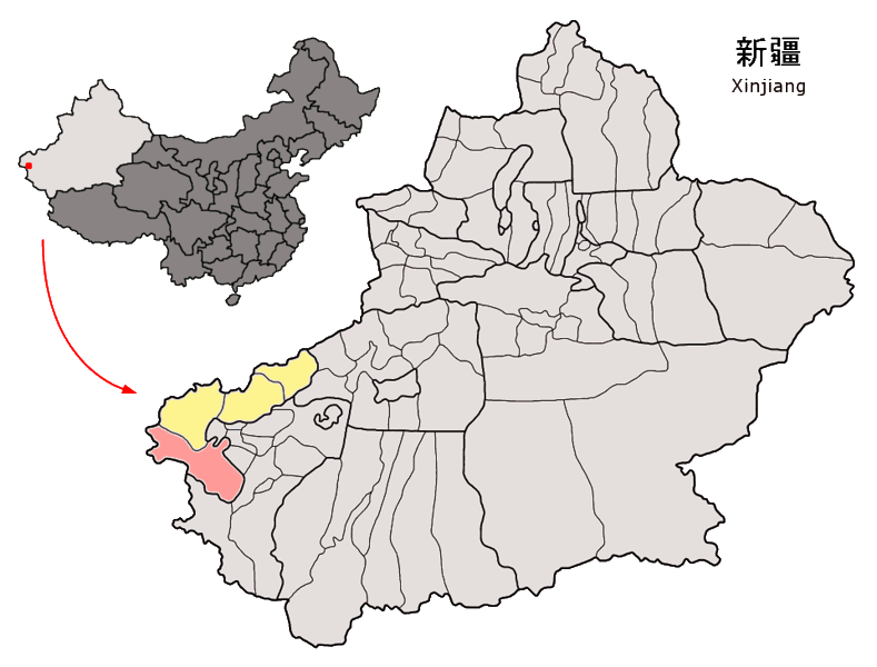 Location of Akto County (pink) and Kizilsu Prefecture (yellow) within Xinjiang autonomous region of China Map drawn in september 2007 using various sources, mainly : Xinjiang Uygur autonomous region administrative regions GIS data: 1:1M, County level, 1990 Xinjiang Counties map from